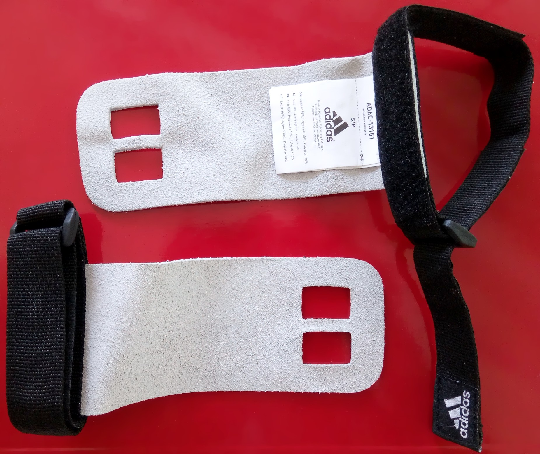 Basic anti-ripper glove, useful when starting physical activity with exercise equipment or gym